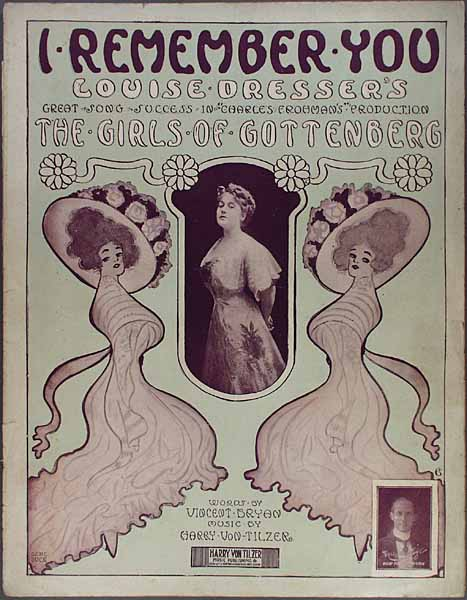 Sheet music from The Girls of Gottenberg, 1908, New York production. Louise Dresser is shown on the cover.